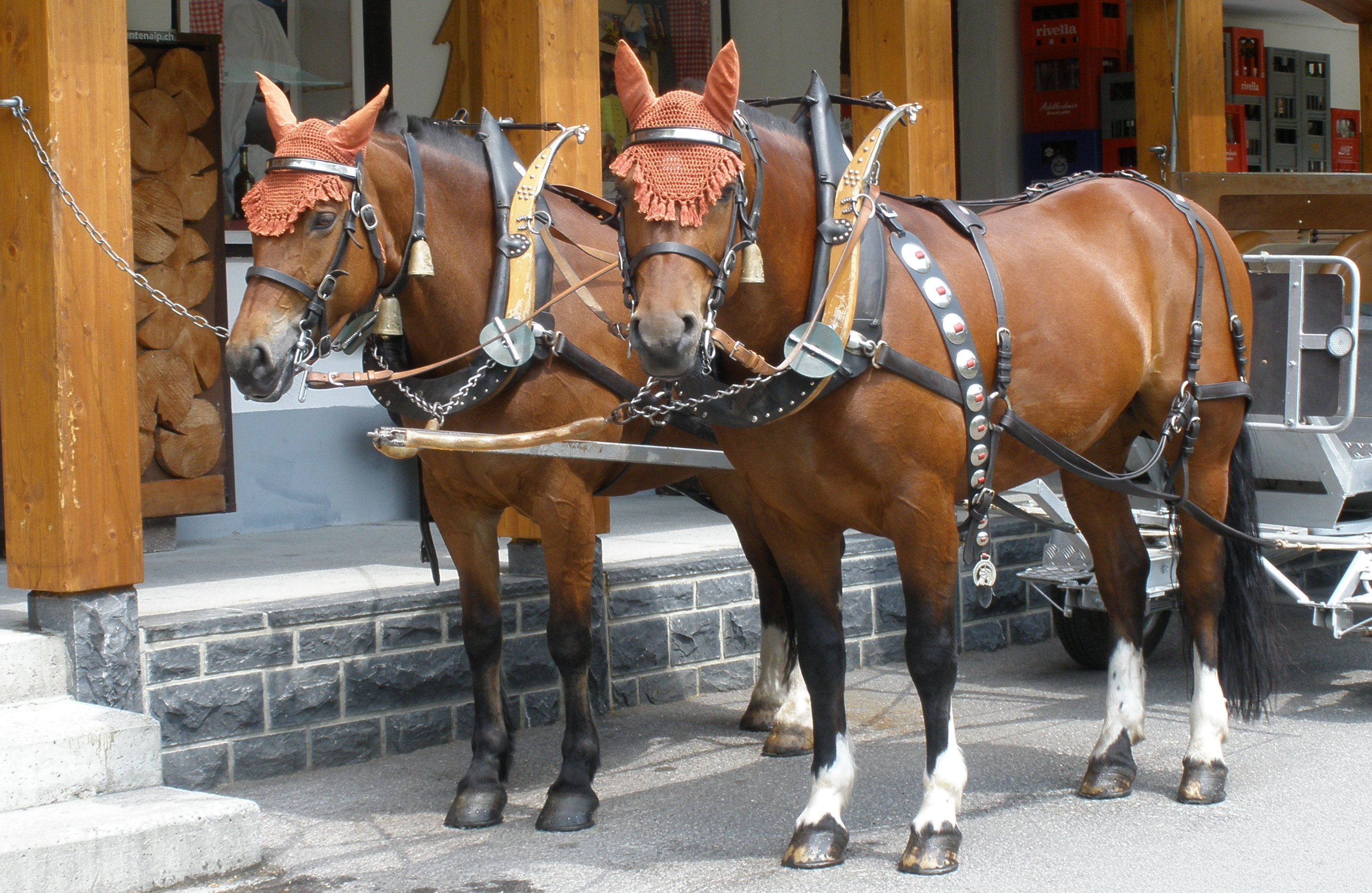 Swiss Franches-Montagnes carriage horses